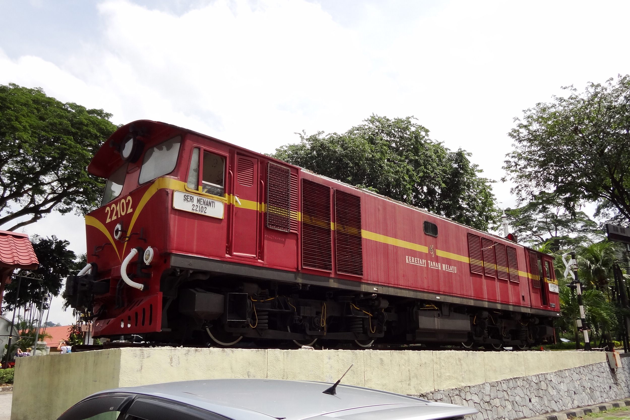 KTM 22102 diesel locomotive showed outside the National Museum in Kuala Lumpur, Malaysia.